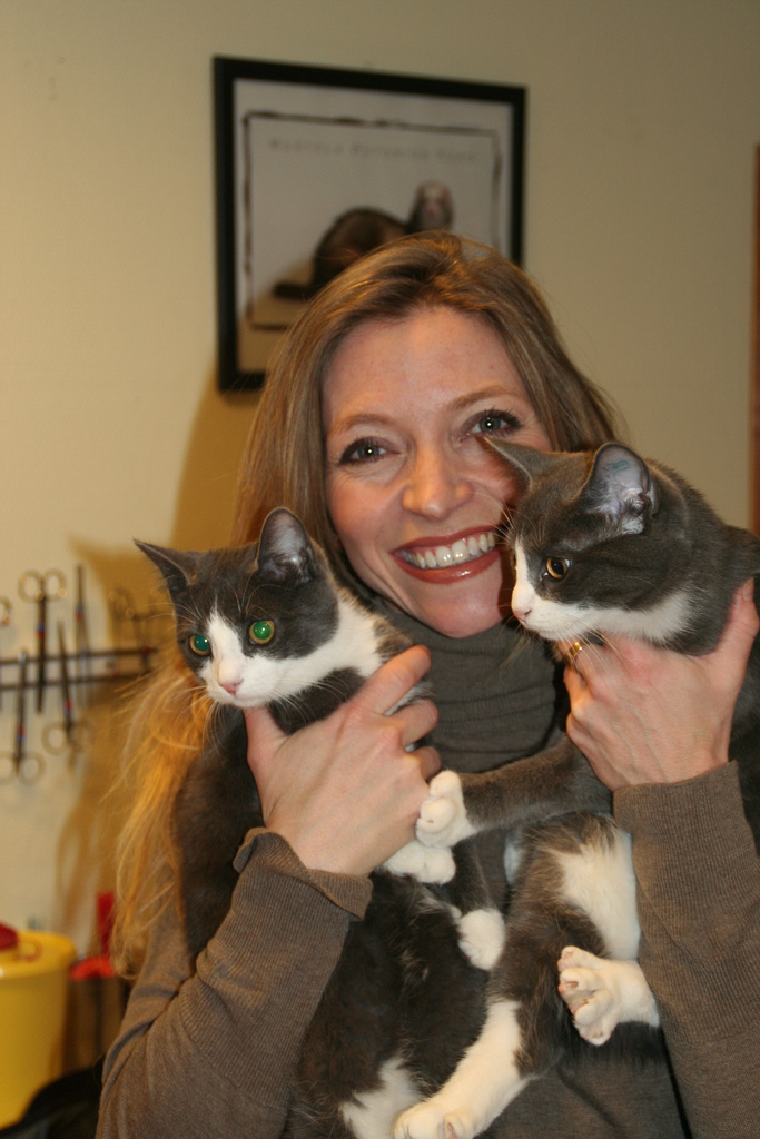 Norwegian veterinarian and TV personality Trude Mostue